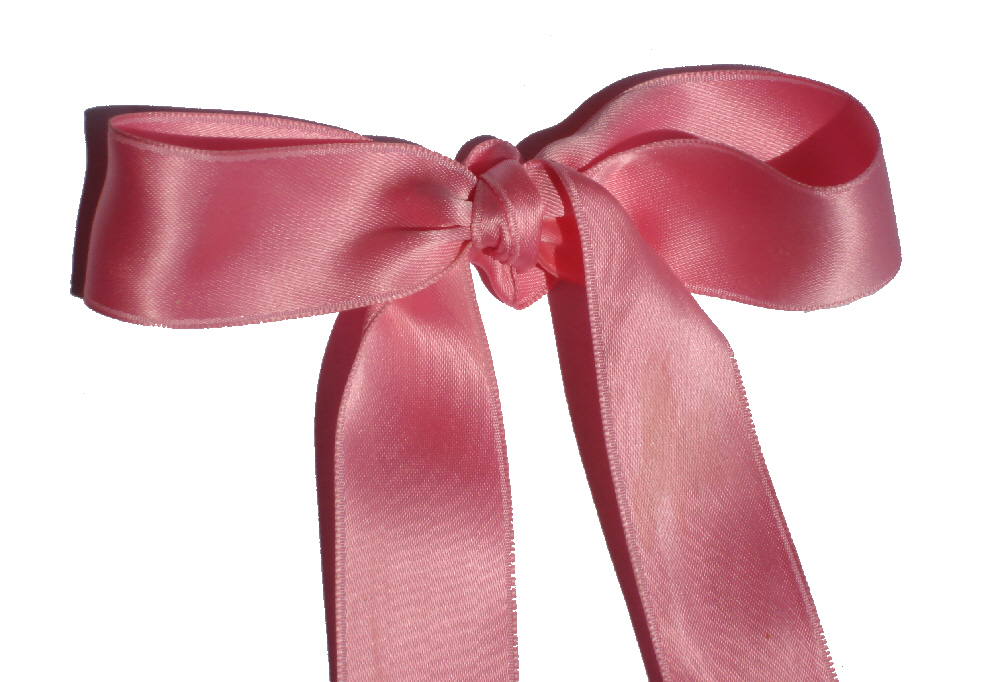 Pink bow